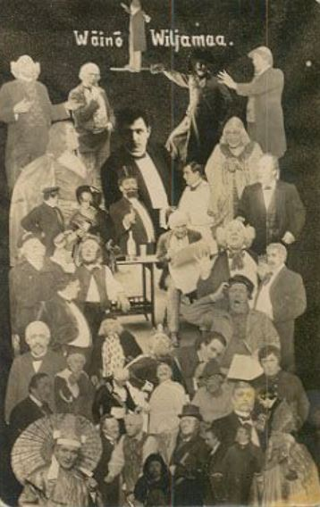 Finnish actor Wäinö Wiljamaa (1874-1923) in 1920s postcard.